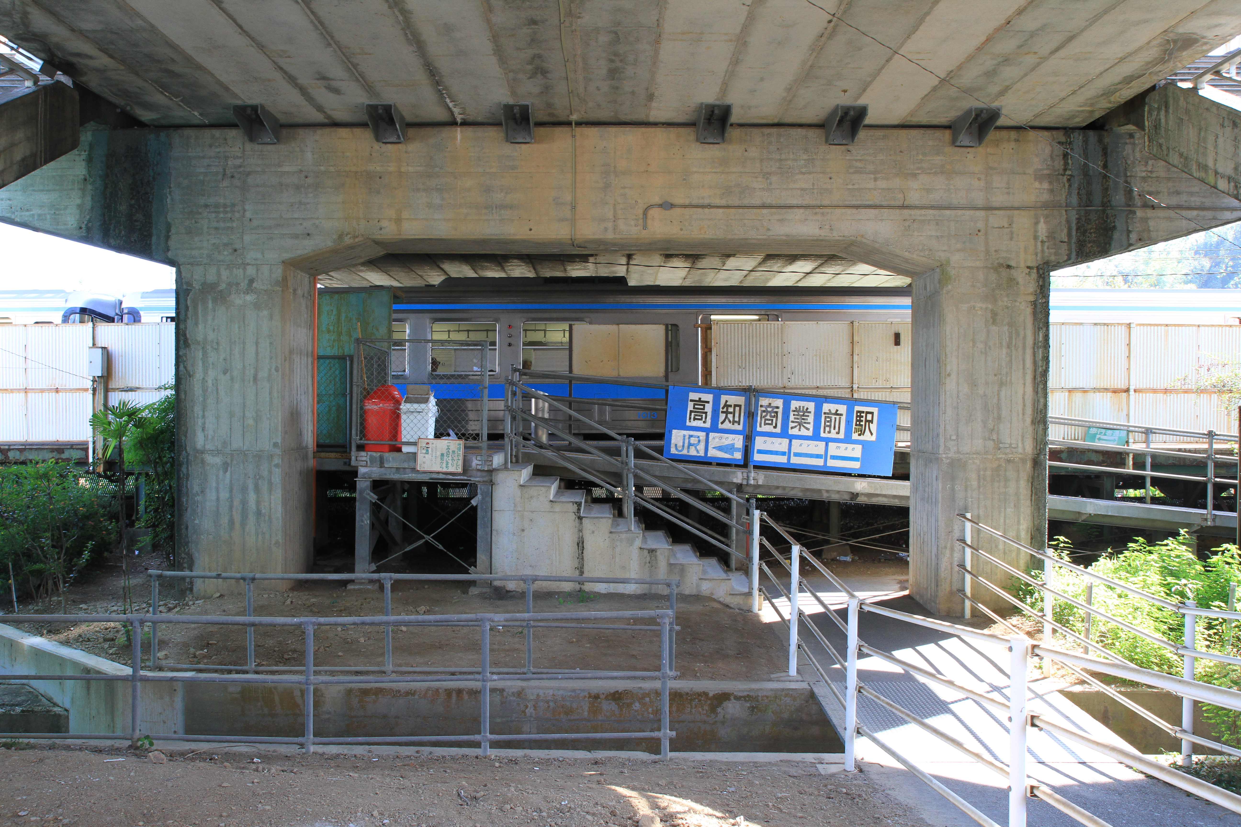 Kochi-Shogyomae Station on Dosan Line